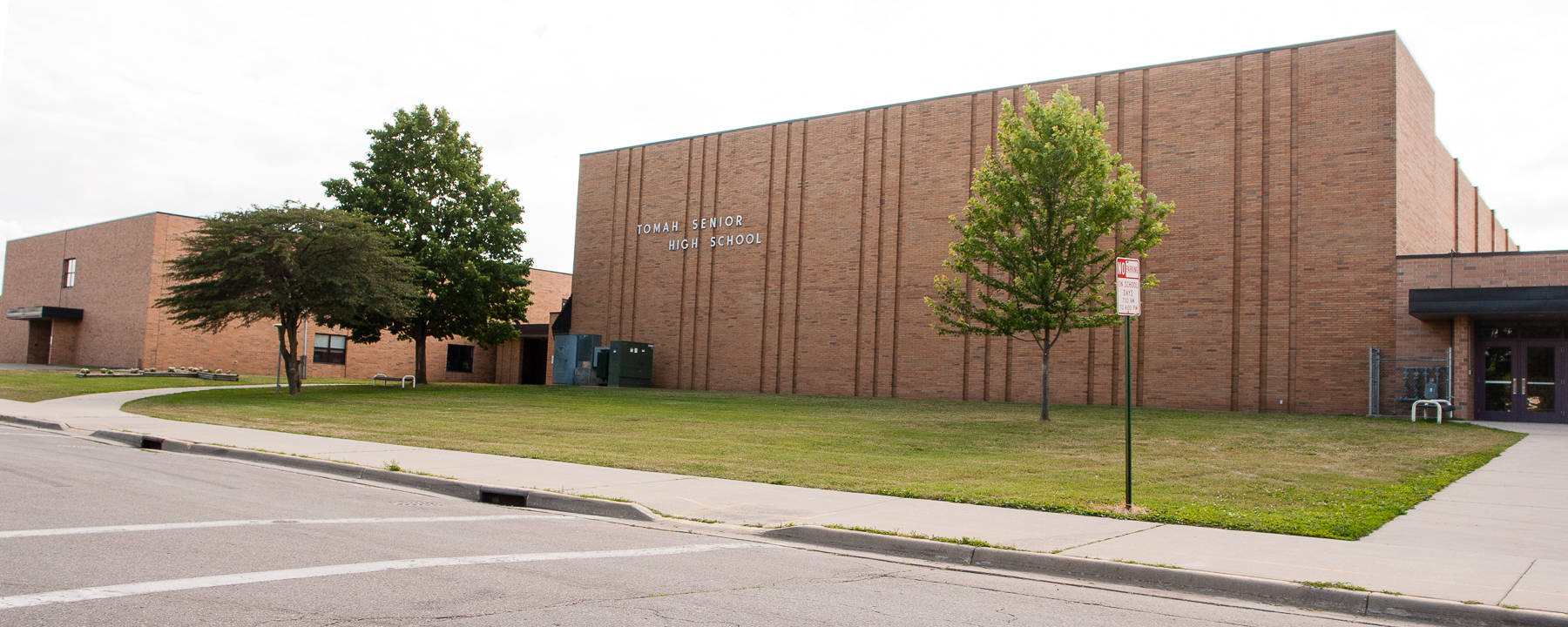 Tomah Senior High School (June 2006)